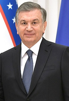 Shavkat Mirziyoyev, 19 October 2018